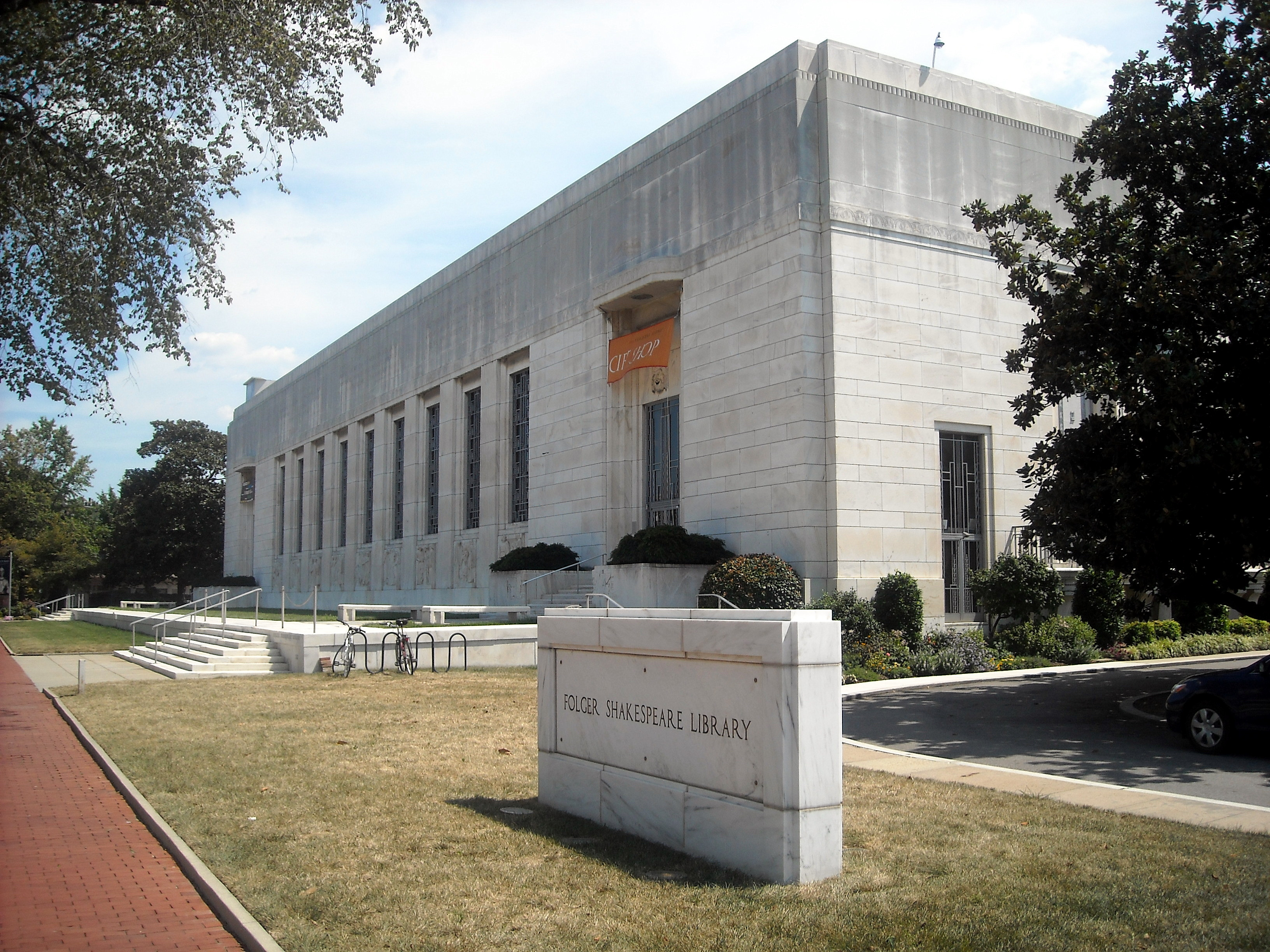 Folger Shakespeare Library at 201 E Capitol Street, SE in Washington, D.C. The building is listed on the National Register of Historic Places.